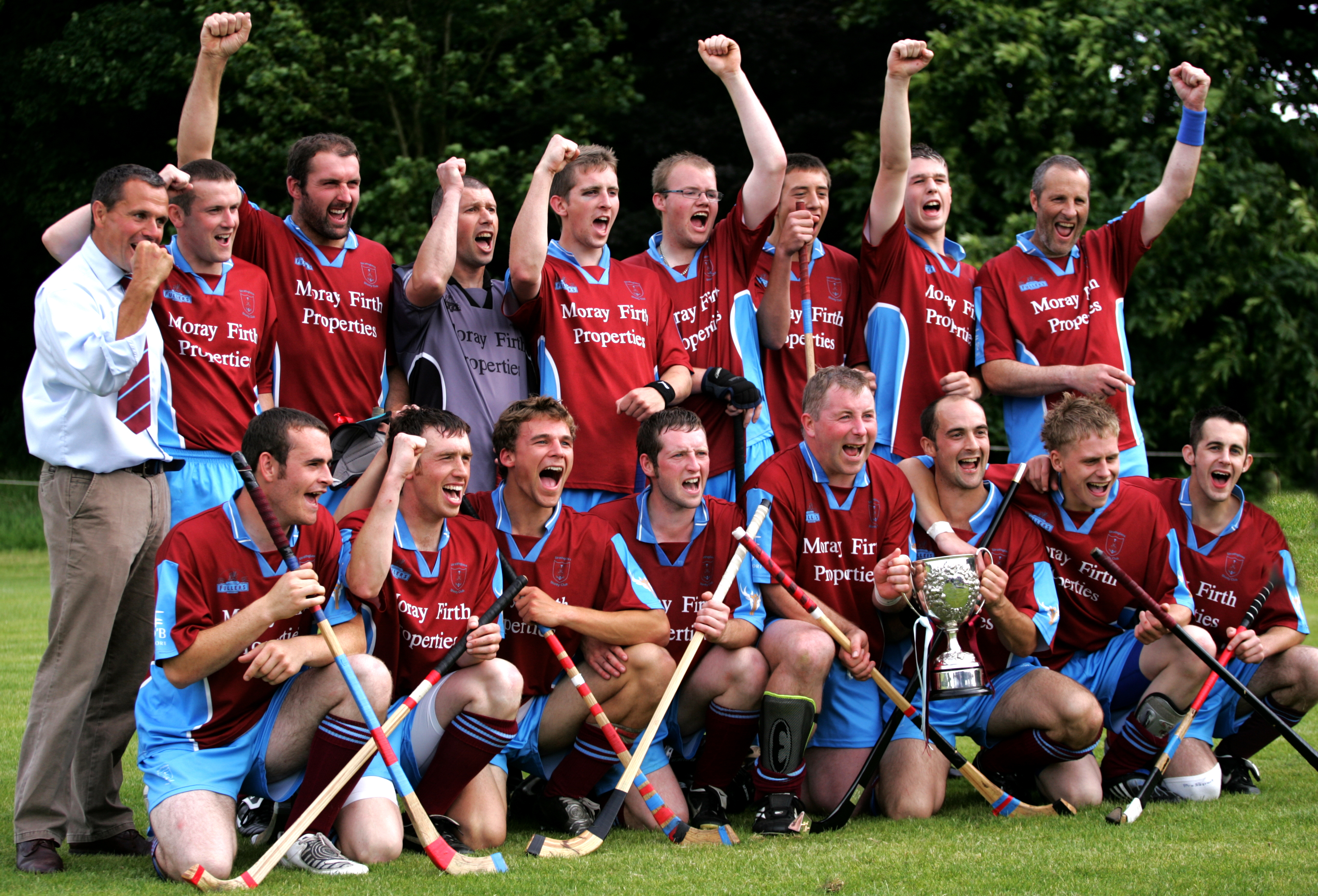 Strathglass Ballimore Cup Winners '09', Rothesay, Bute, Scotland.